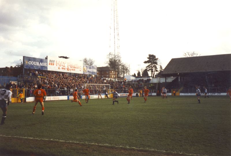 Match between Reading FC v Fulham at Elm Park (stadium).